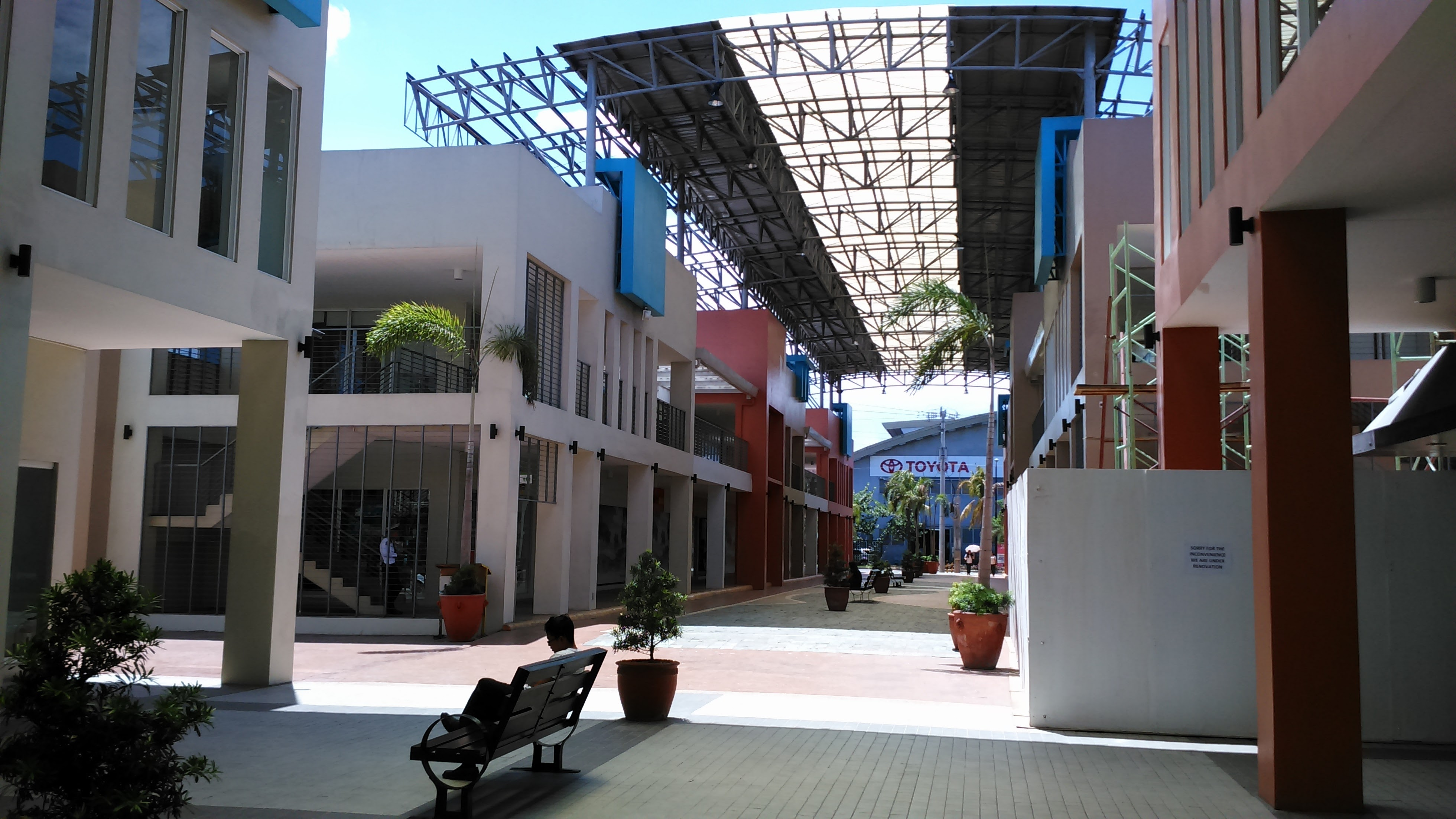 Outdoor stores at the Blue Bay Walk near the SM Mall of Asia.